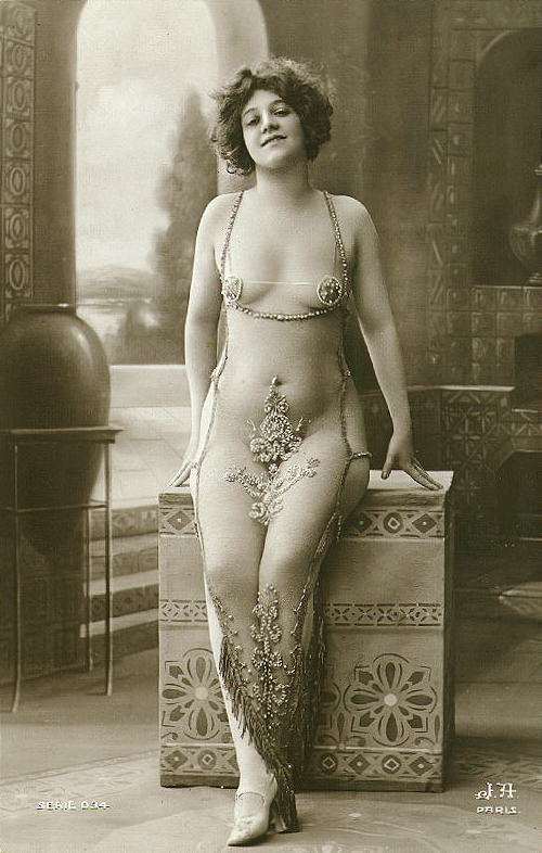 Early 20th-century French postcard labelled "JA Serie 034", with a posed pseudo-Oriental scene.